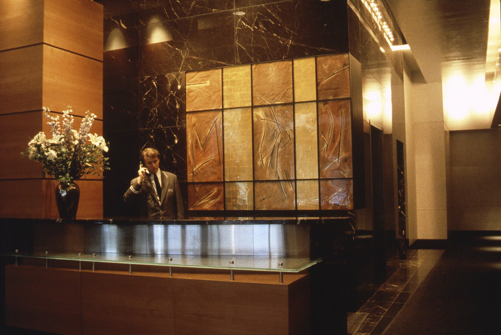 "Millennium Byōbu" — by Robert Kehlmann (1994), Lincoln Square Residential Lobby, 111 West 67th St, New York, NY. Sandblasted glass, mixed media on board, 68" x 79".